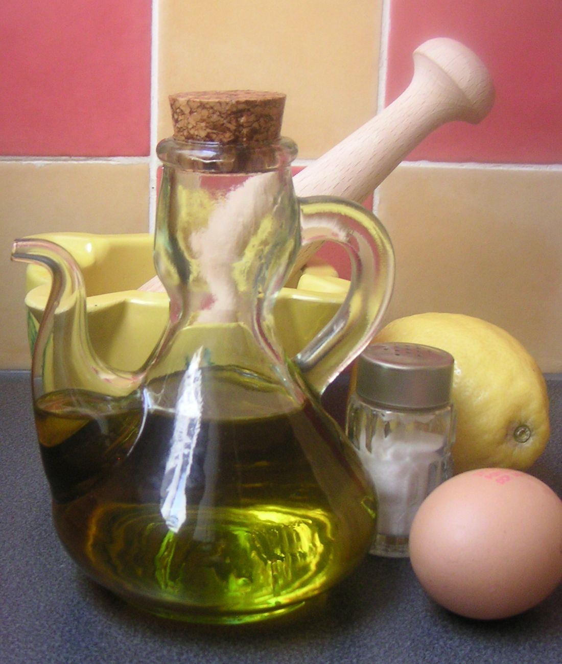 Ingredients and tools used in mayonnaise sauce (teapot is optional) "mahonesa" made in Mahón (in the Balearic Islands, Mediterranean Sea, Spain). It is made with a glass of olive oil and an egg (yolk+white), and seasoned with a pinch of salt and some drops of lemon juice or vinegar. To make 'mahonesa' sauce, we put the egg and salt in the mortar and we drop little by little the olive oil (we use the special glass botle of the photo) with one hand whereas we stir with the other hand to make an emulsion. Finaly we can add citron juice or vinegar. We can use a mixer instead of the traditional mortar.